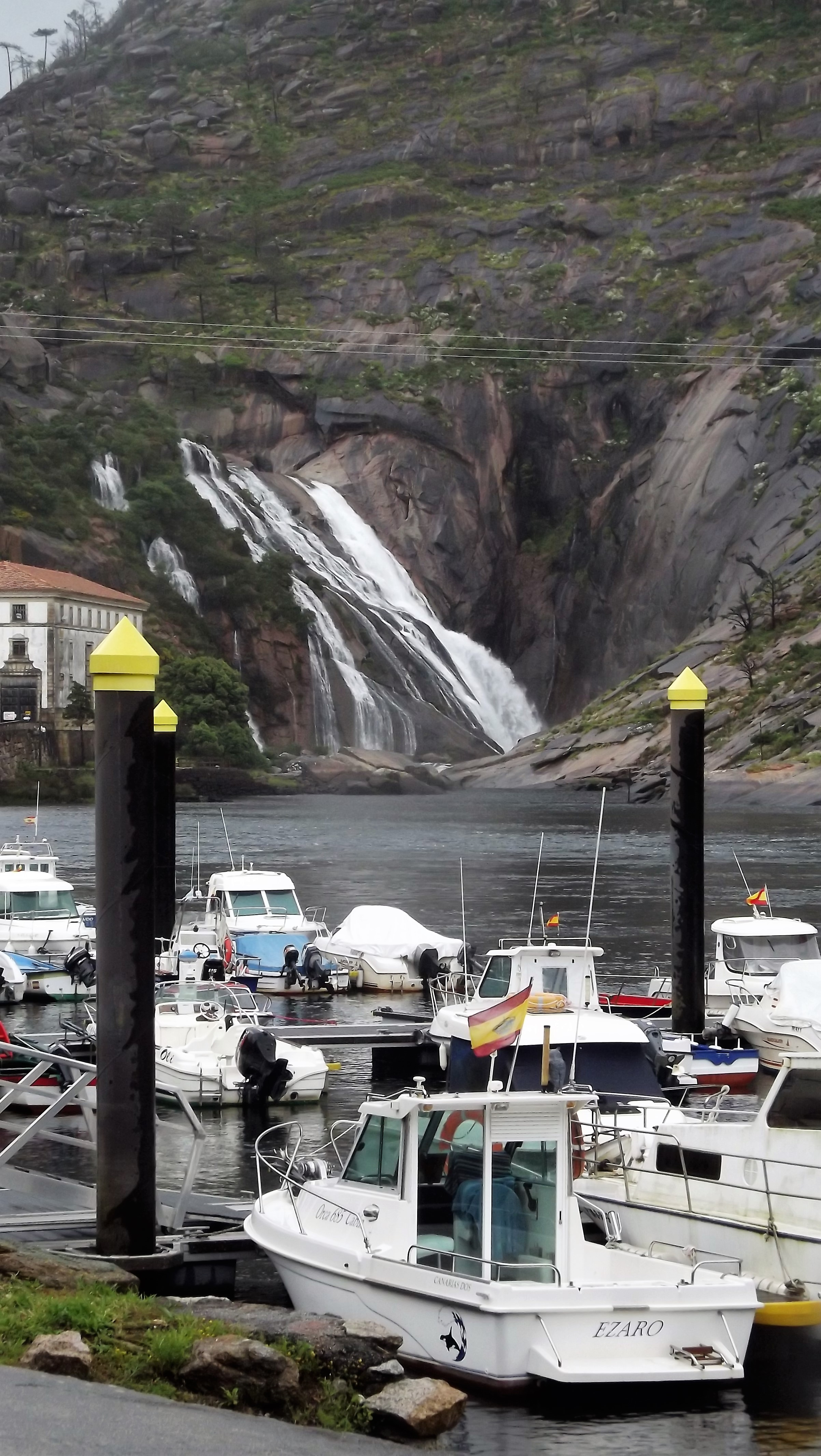 Ezaro waterfall.